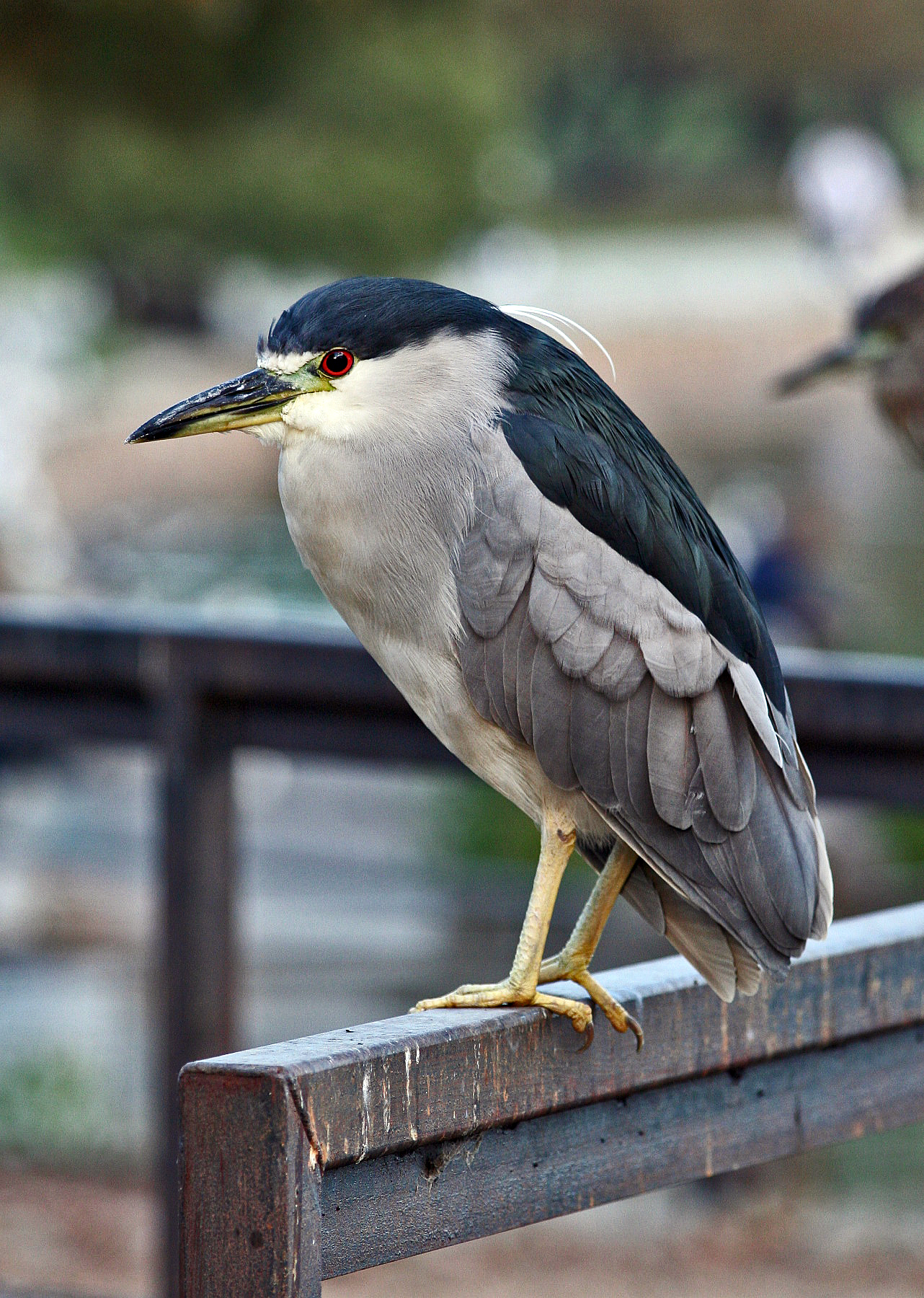 Black-crowned Night Heron (Nycticorax nycticorax) at Lake Merritt in Oakland, California.